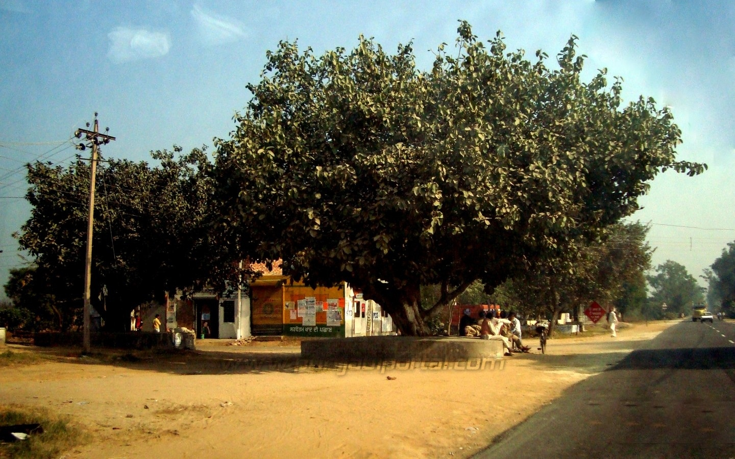 sath of phaguwala